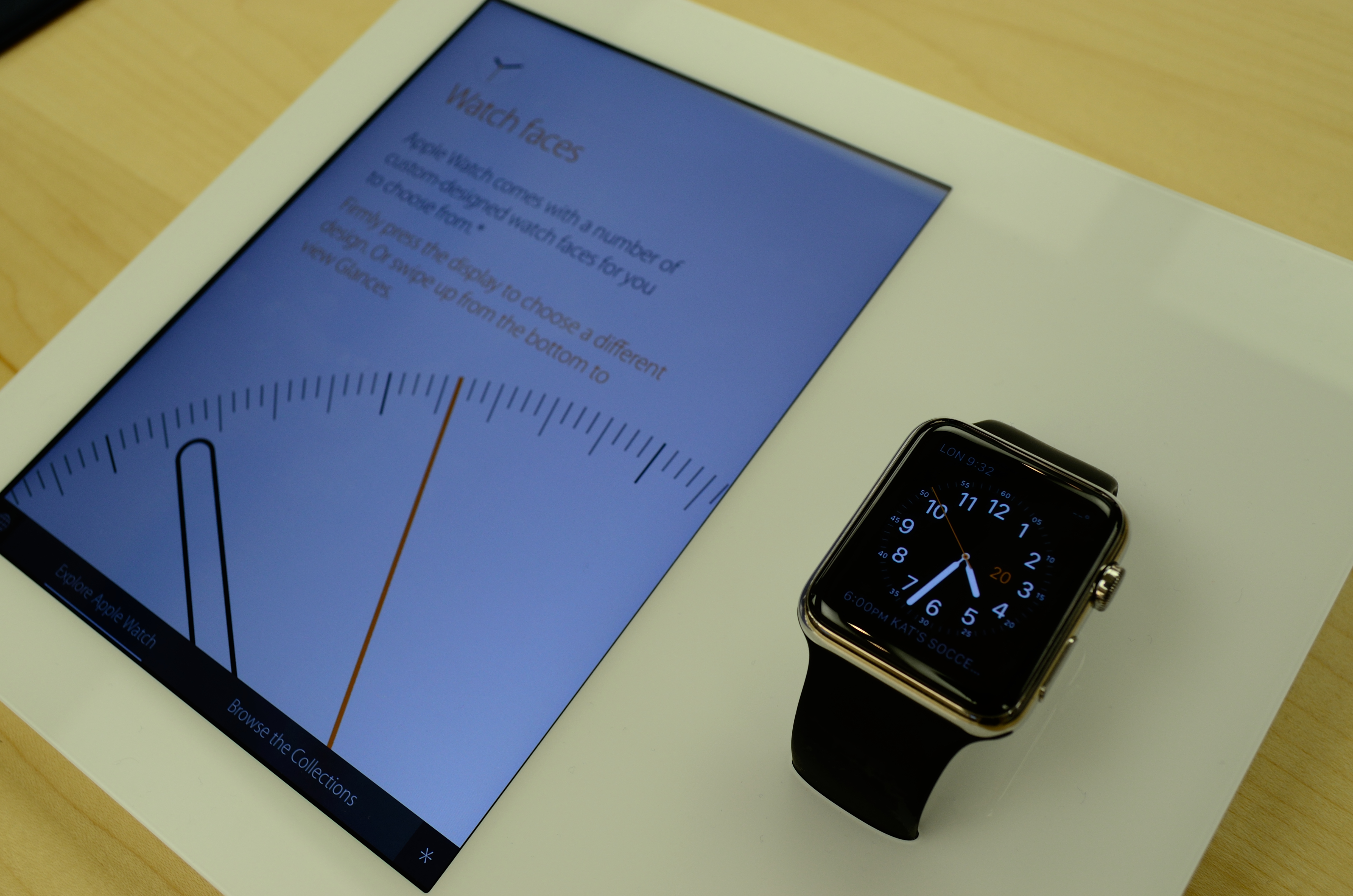 Apple Watch on display at an Apple Store